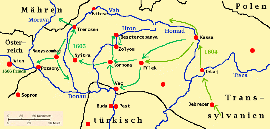 1604 to 1605 war of István Bocskay against Habsburg